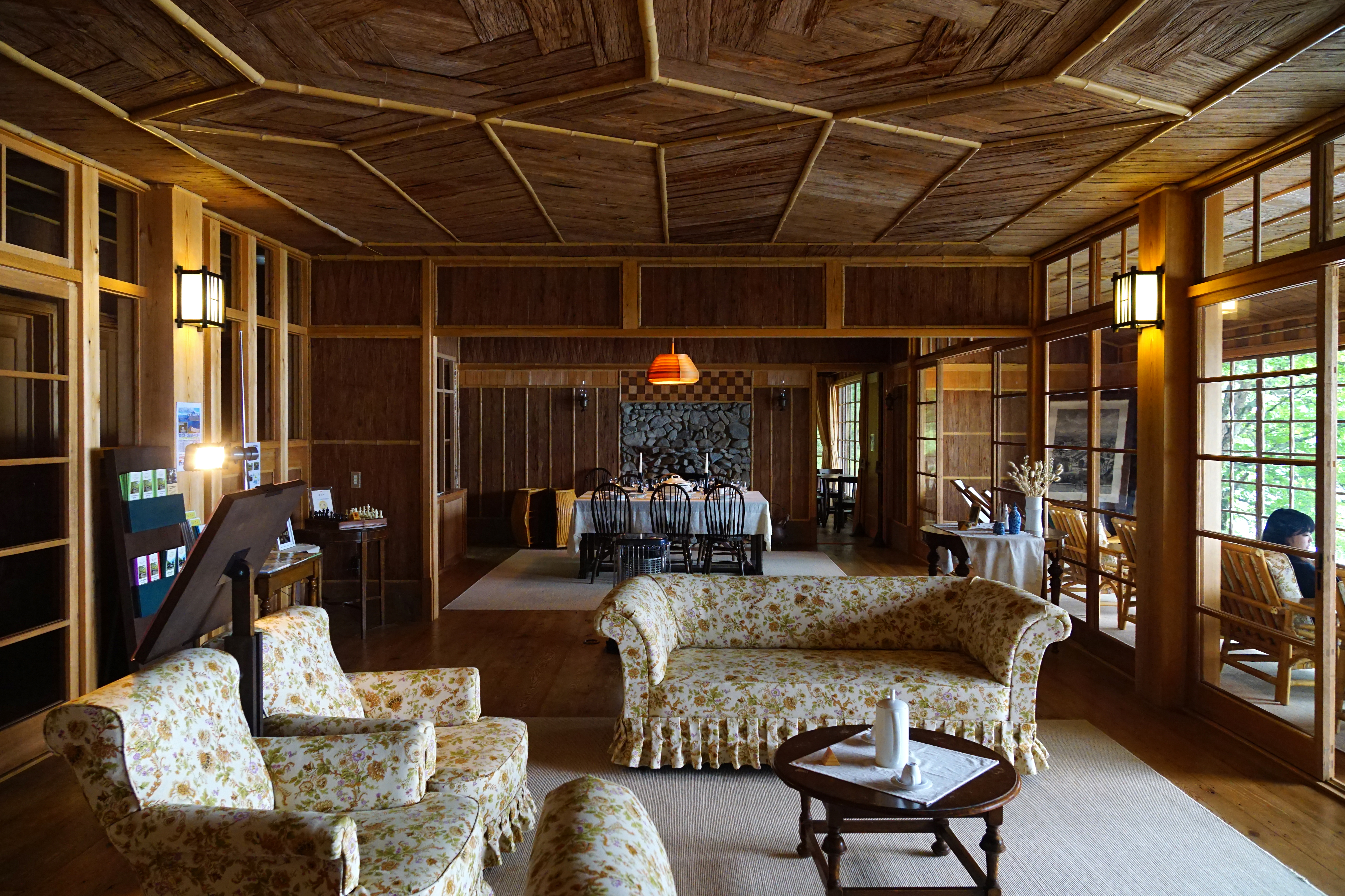 Italian_Embassy_Villa_Memorial_Park in Nikko, Tochigi prefecture, Japan